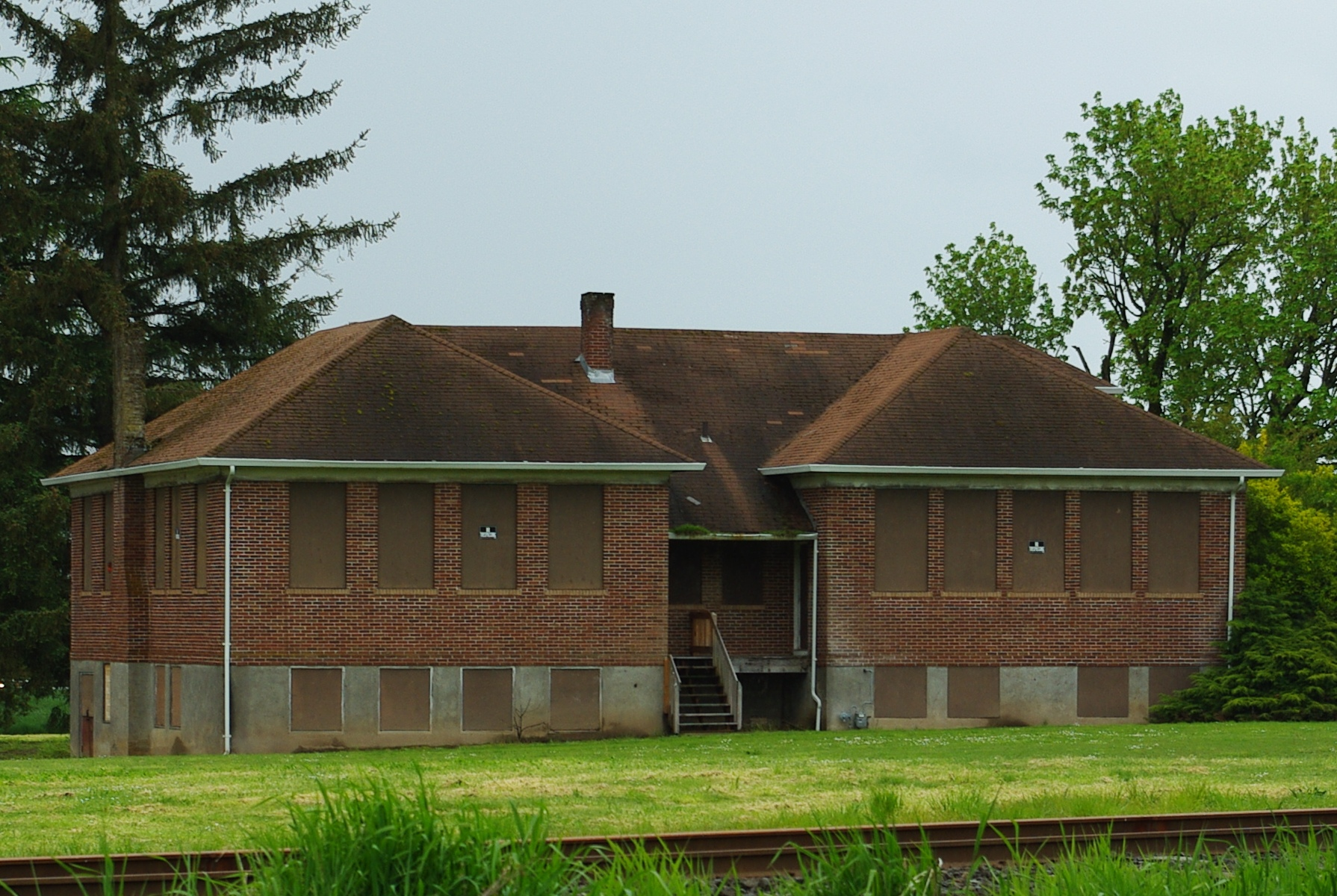 Vacant school built in 1935, Springbrook, Oregon, USA.